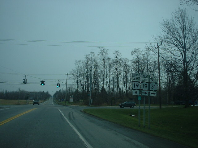 New York State Route 31 eastbound at Redman Road in Sweden. Until the 1980s, NY 31 continued east (straight) at this junction (now New York State Route 19 Truck northbound) into the village of Brockport. Instead, it now bypasses the village to the west and south on Redman and Fourth Section Roads.